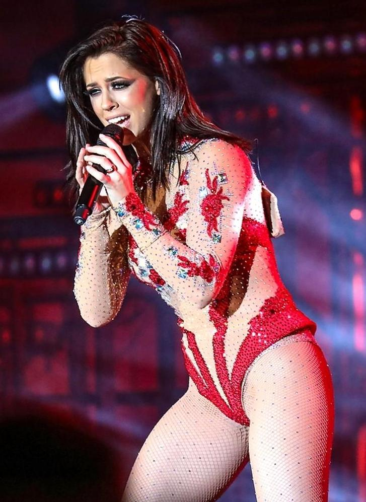 German Pop-Schlager-Singer Vanessa Mai during her "Regenbogen Tour" at Rosengarten Mozartsaal, Mannheim, Germany (17th May 2018).